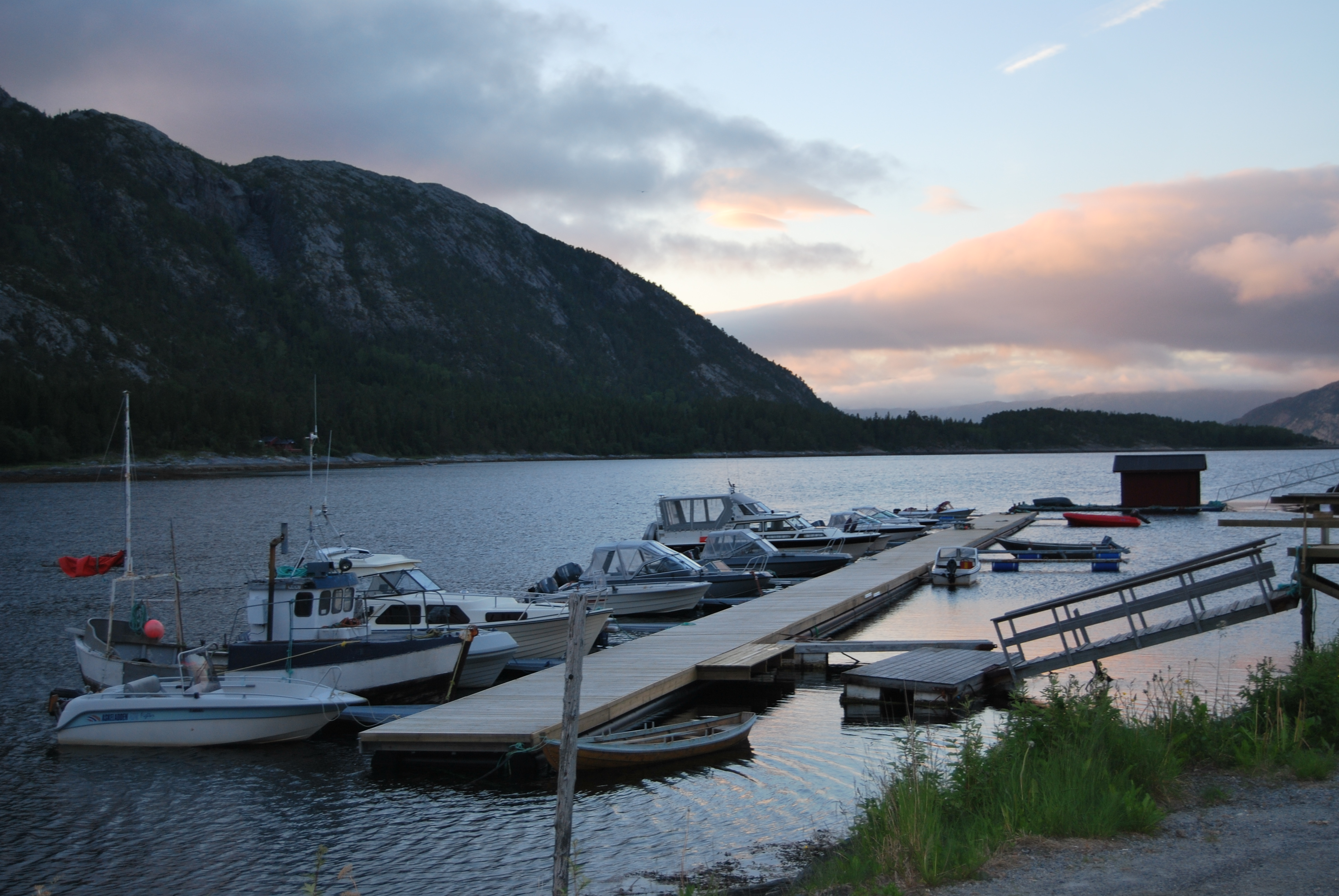 Bindalseidet, Nordland, Norway (2013)